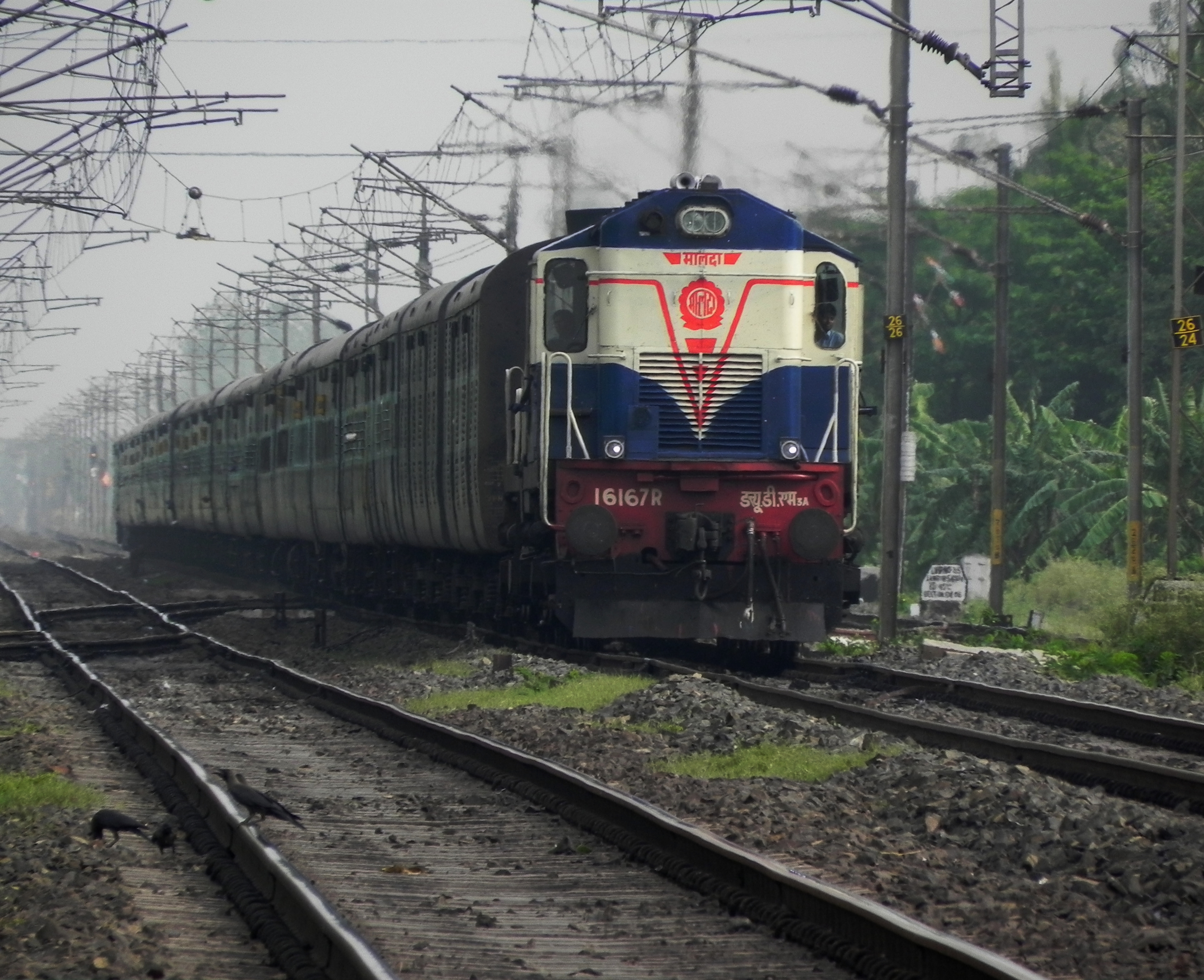 Howrah (HWH) bound 12346 (Guwahati-Howrah) Saraighat Express at Baruipara, West Bengal